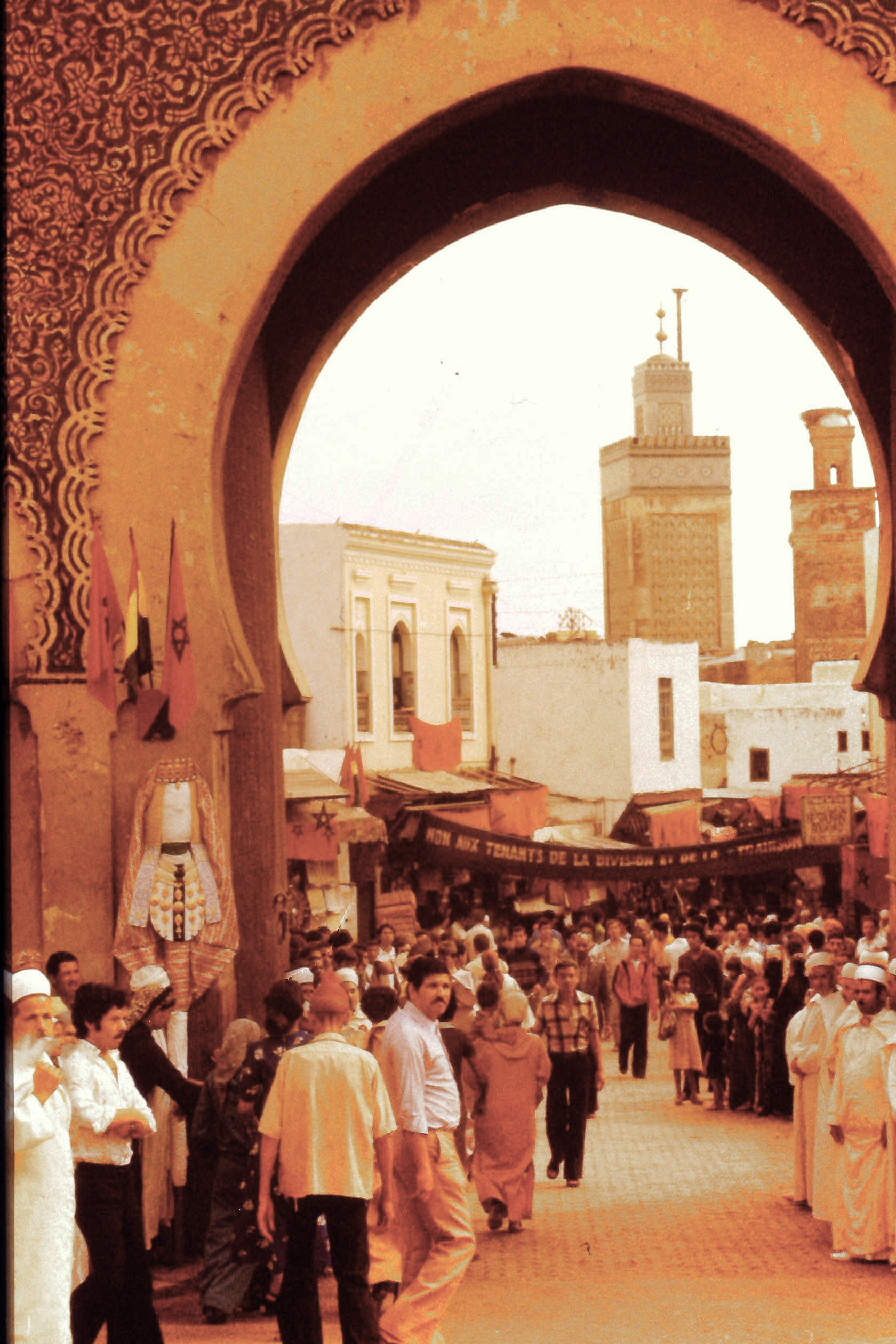 Bab Boujloud, often called the "Blue Gate," in the Moroccan city of Fes.